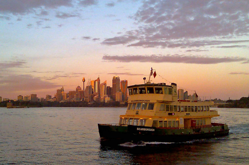 Sydney First Fleet Cataraman Ferry - Scarborough on Sydney Harbour